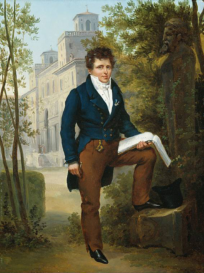 "Portrait of Nicolas-Pierre Tiolier" by French painter François-Édouard Picot, (46.4 x 35.7 cm)